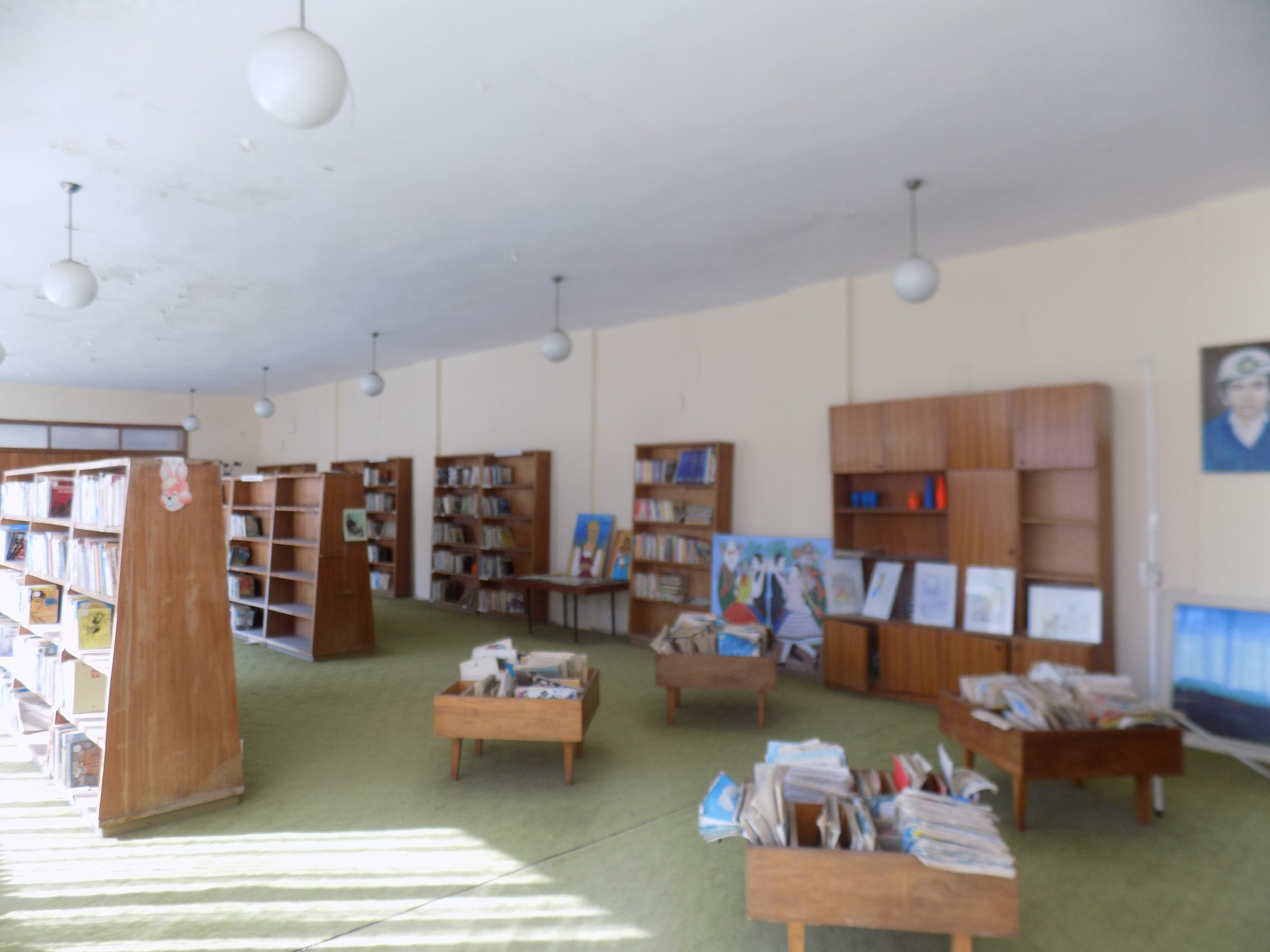 The library in the village of Trudovets